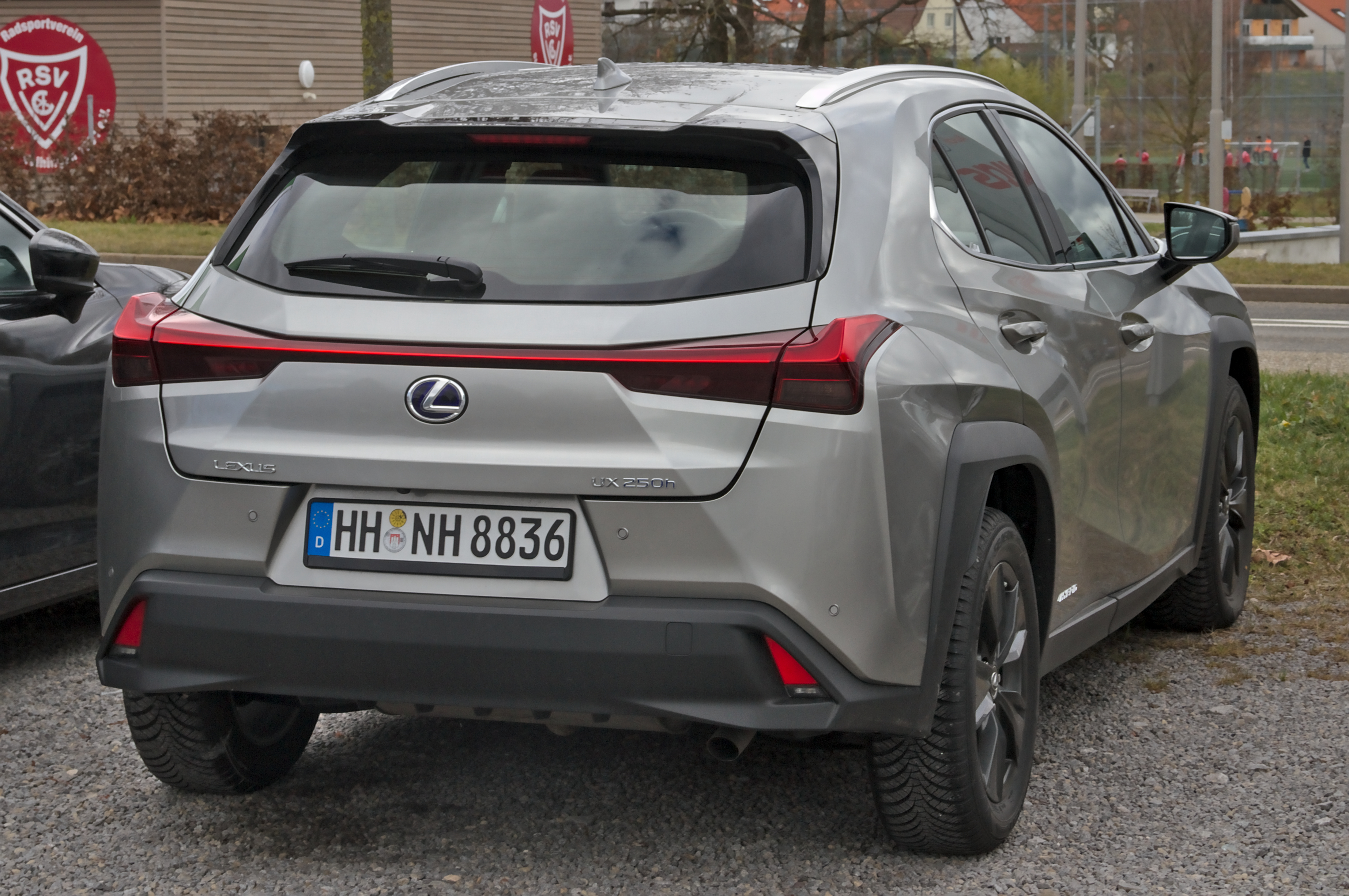 Lexus_UX_250h in Stuttgart-Vaihingen